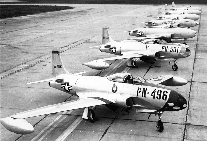 Production P-80 Shooting Stars at Langley Air Force Base, taken from and uploaded by Willy Logan.